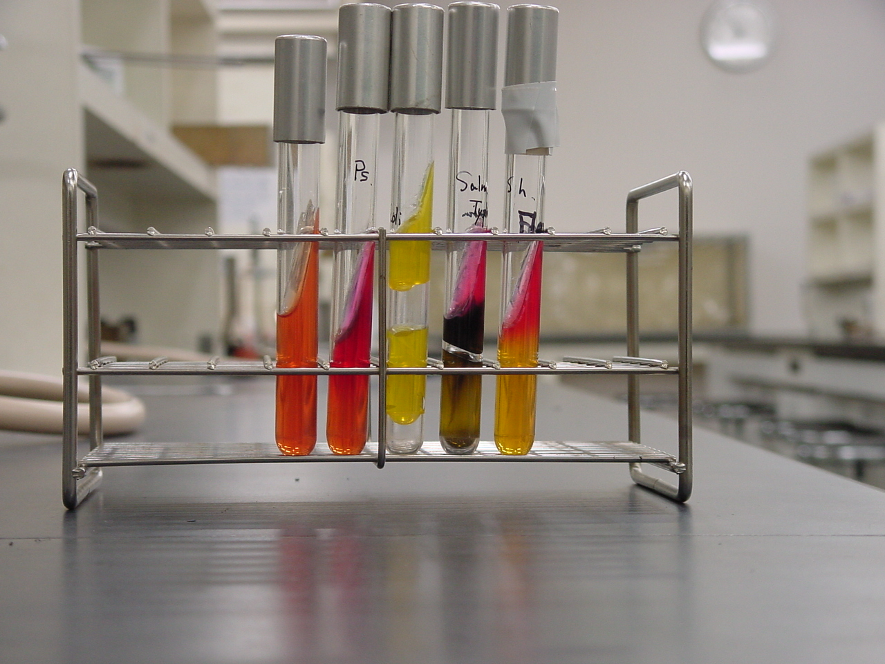 TSI (Triple sugar iron) agar slant results. From left: uninoculated (as control) P. aeruginosa: Glc (-), Lac/Suc (-), H2S (-), Gas (-) E. coli:Glc (+), Lac/Suc (+), H2S (-), Gas (+) Salmonella Typhimurium:Glc (+), Lac/Suc (-), H2S (+), Gas (+) Shigella flexneri:Glc (+), Lac/Suc (-), H2S (-), Gas (-) Abbreviations and Interpretation of results Glc:Glucose fermantation, (+) butter colored yellow, (-) red. Lac/Suc:Lactose and/or Sucrose fermentation, (+) slant colored yellow, (-) red. H2S:production of H2S, (+) a black precipitate formed in slant, (-) not formed. Gas:production of Gas(CO2, H2S, etc), (+) agar may be lifted off the bottom or break apart, (-) not formed.